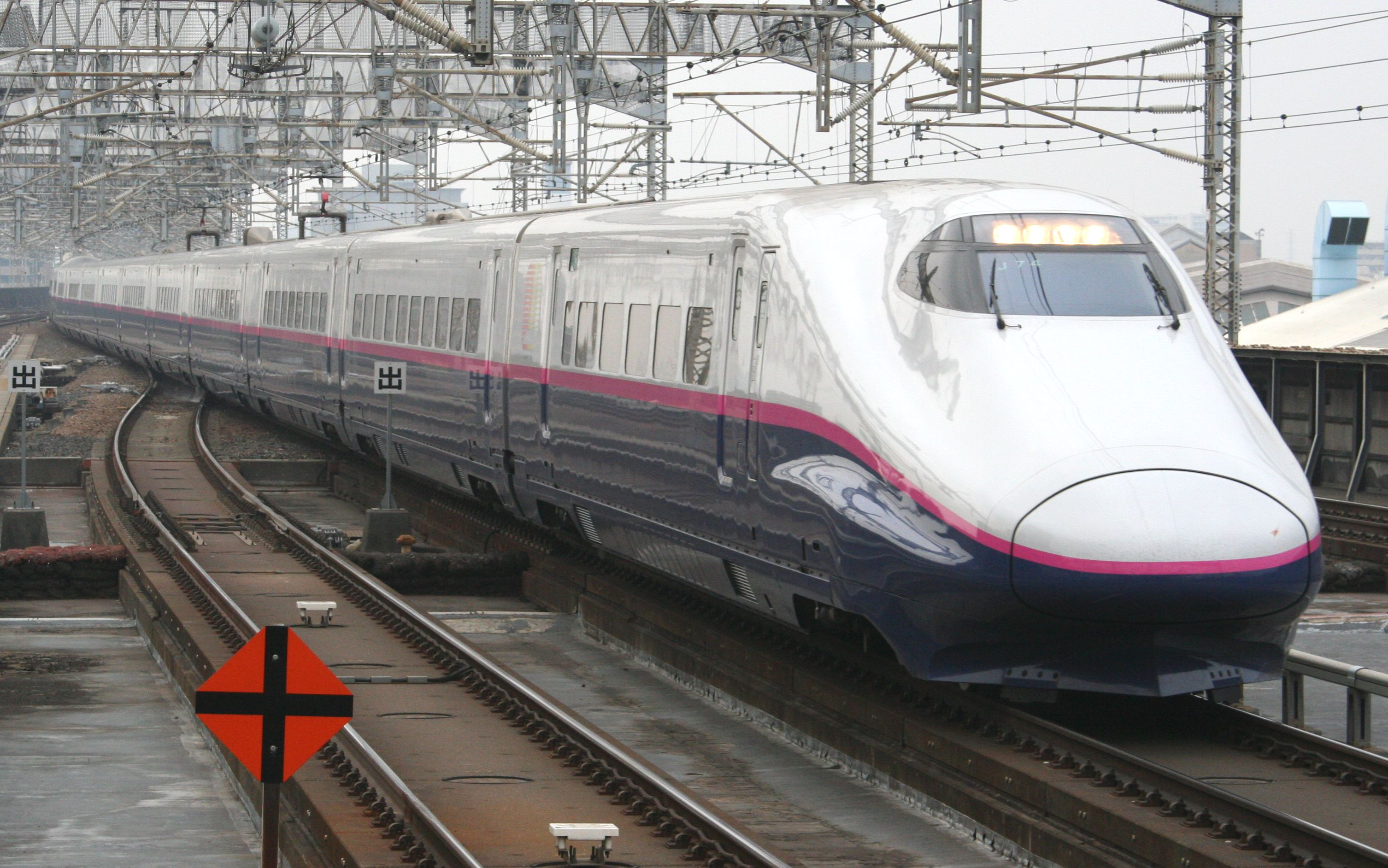 JR East E2 series shinkansen set J74 approaching Omiya Station on the Tokyo-bound Yamabiko 216 service